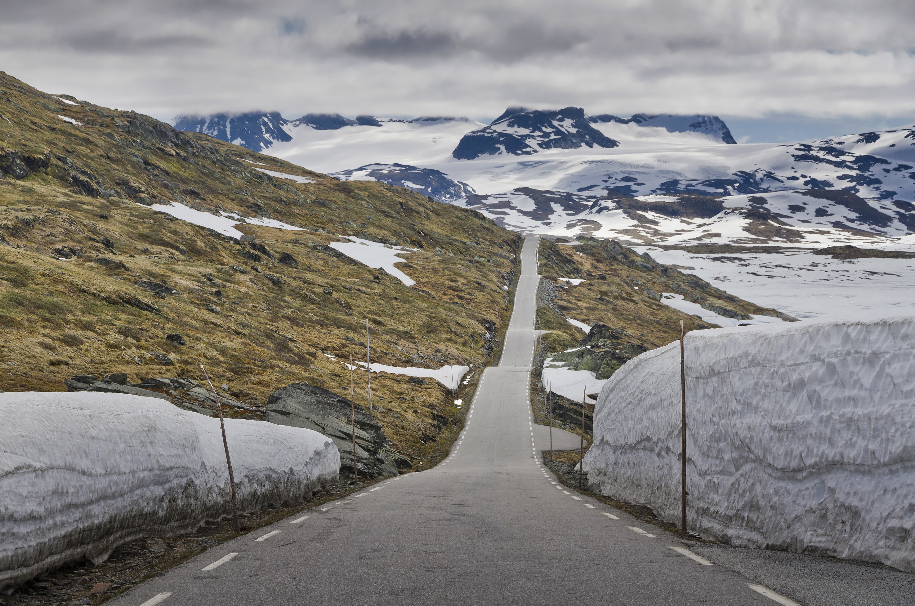 Fv55 road towards east on the highlands at Sognefjellet in Luster municipality, Sogn og Fjordane, Norway in June 2013. The height of the snow wall by the road is a little under 4 meters.